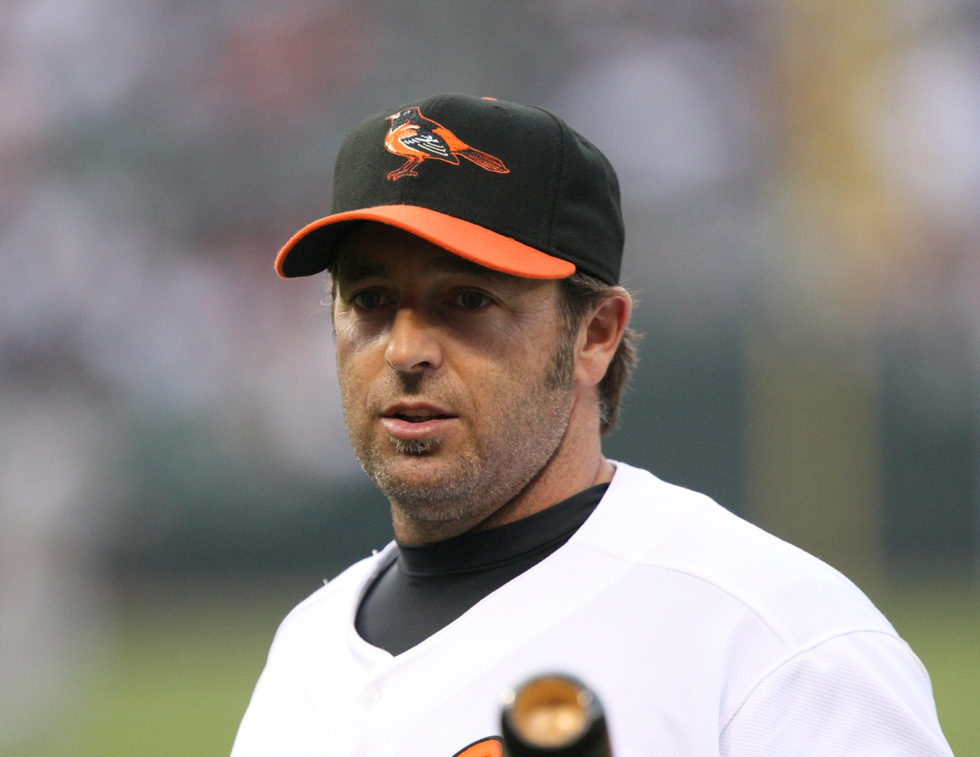 baseball player as shot by photographer Keith Allison